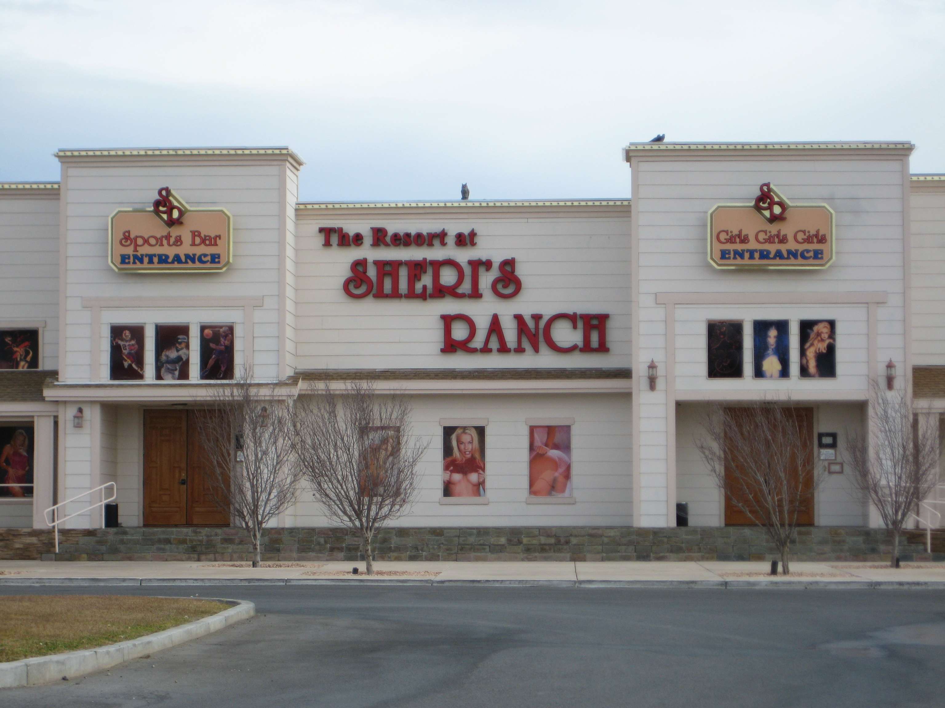 Front entrance to Sheri's Ranch in Pahrump, Nevada